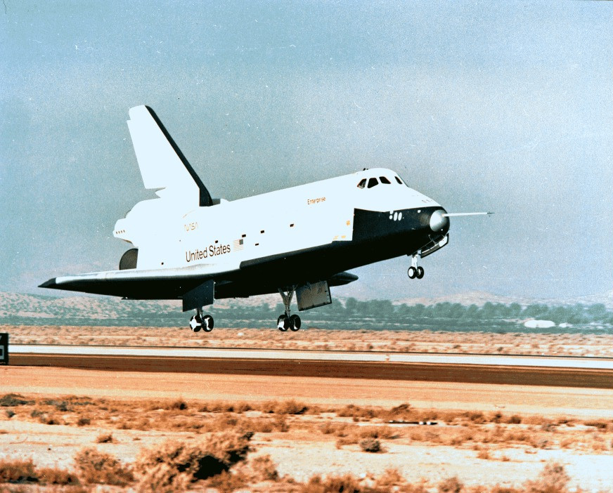 PictionID:55953492 - Catalog:14_038328.tif - Title:Space Shuttle Details: Landing of Space Shuttle Enterprise - Filename:14_038328.tif - ---- Images from the Convair/General Dynamics Astronautics Atlas Negative Collection. The processing, cataloging and digitization of these images has been made possible by a generous National Historical Publications and Records grant from the National Archives and Records Administration---Please Tag these images so that the information can be permanently stored with the digital file.---Repository: San Diego Air and Space Museum